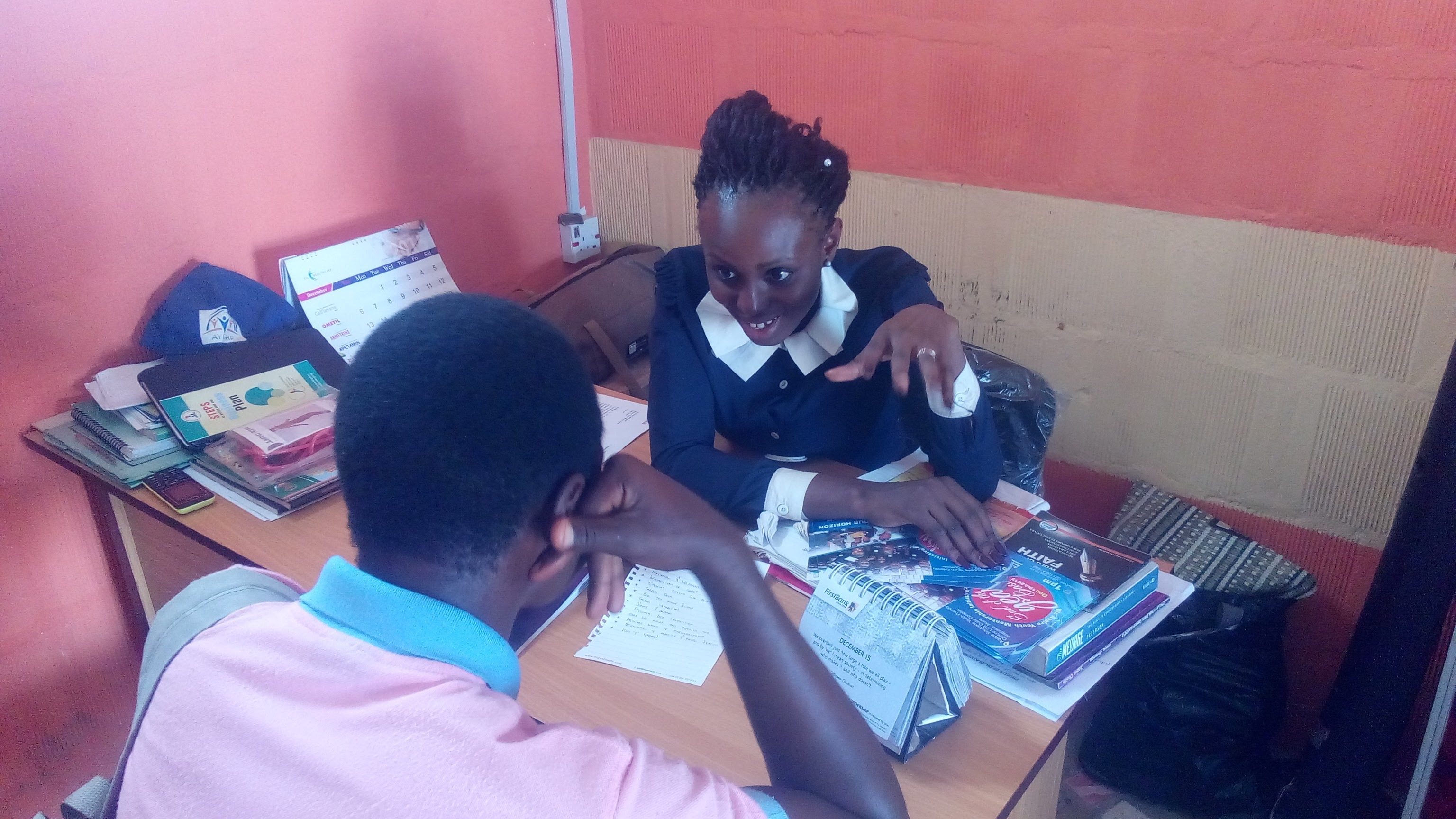 Female mentor teaching another peer educator